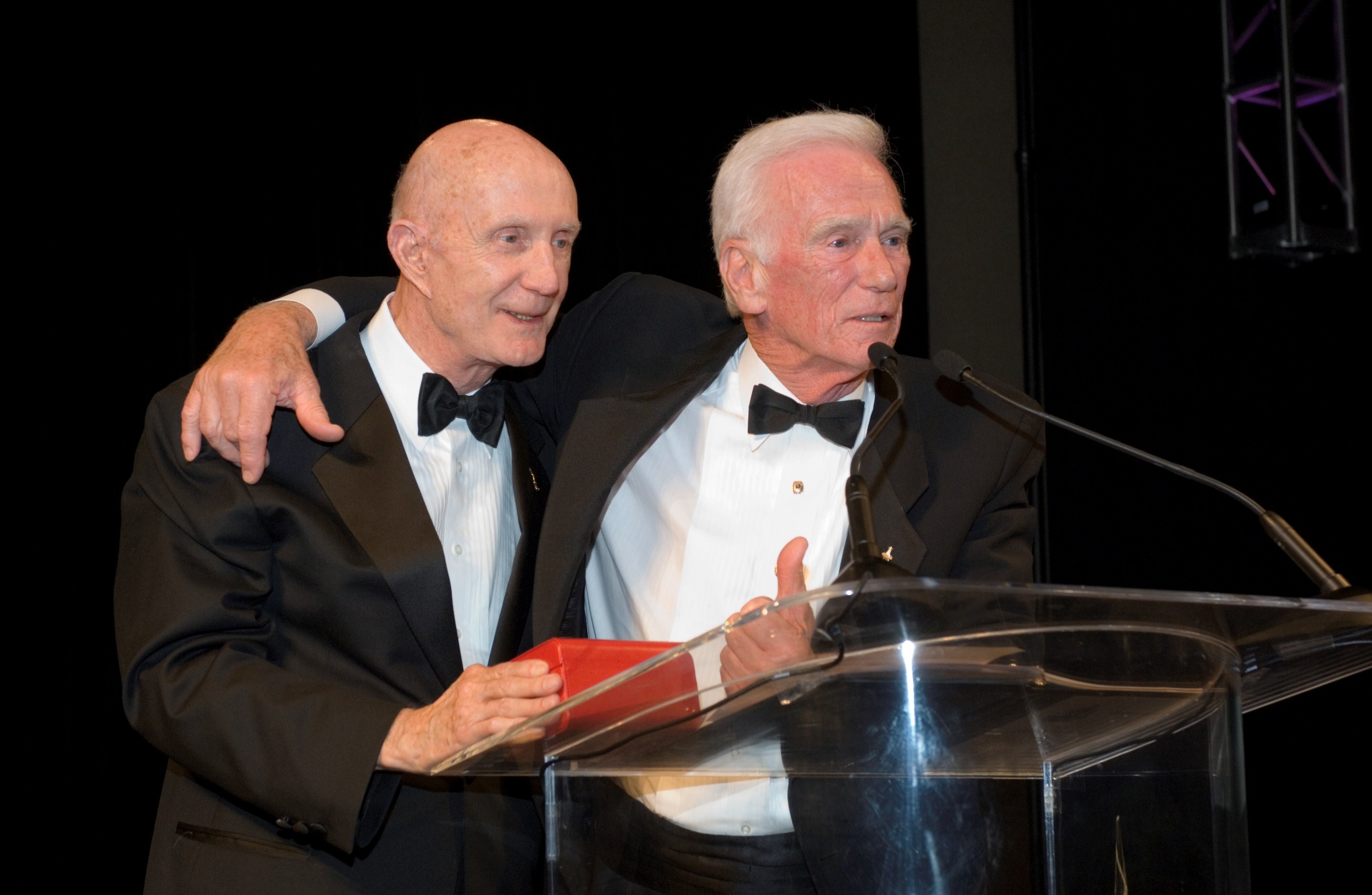 Presenter of Omega Watch, Tom Stafford, and Gene Cernan.